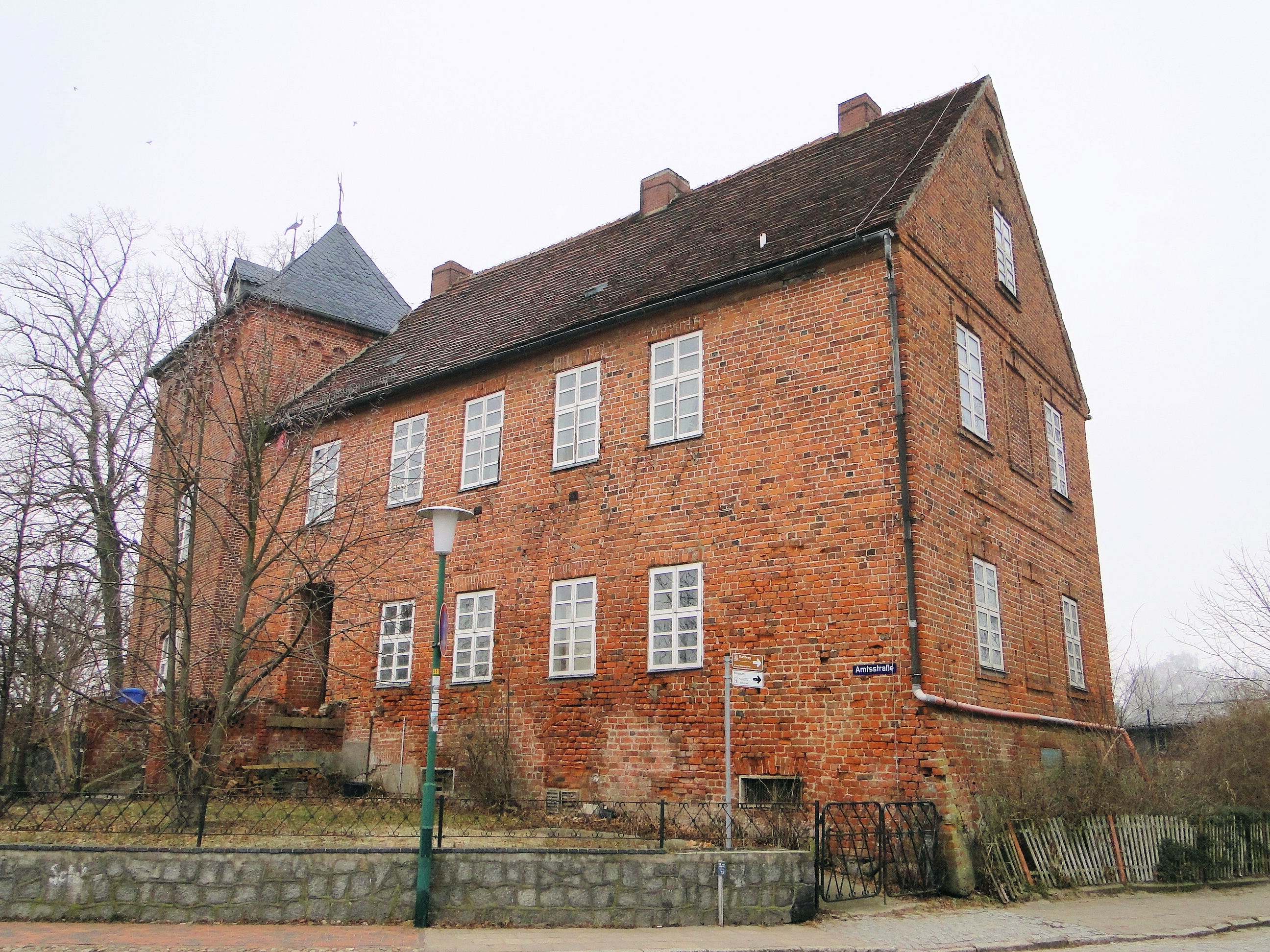 Former local District Court in Goldberg, district Parchim, Mecklenburg-Vorpommern, Germany